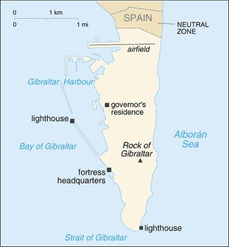 Map of Gibraltar